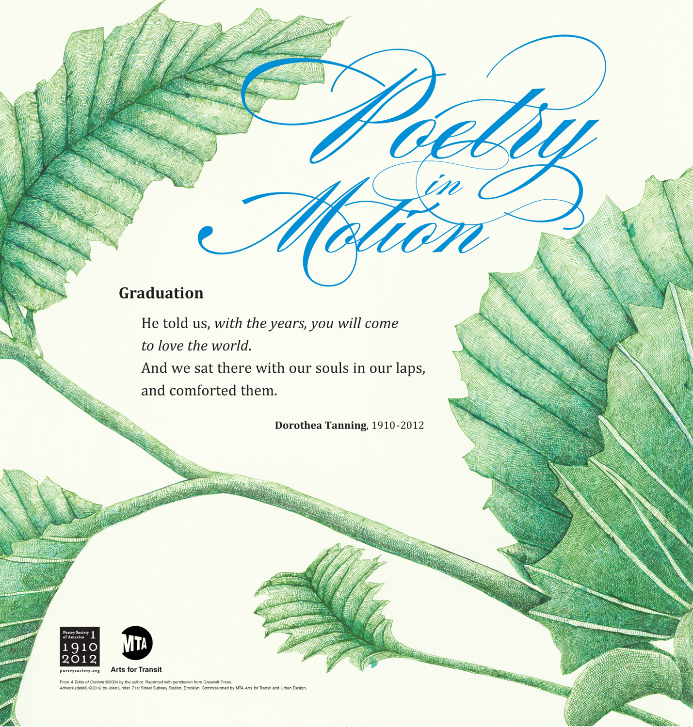 We re-established the Poetry in Motion program on March 27, 2012. Graduation by Dorothea Tanning is the first poem in the new incarnation of the program.